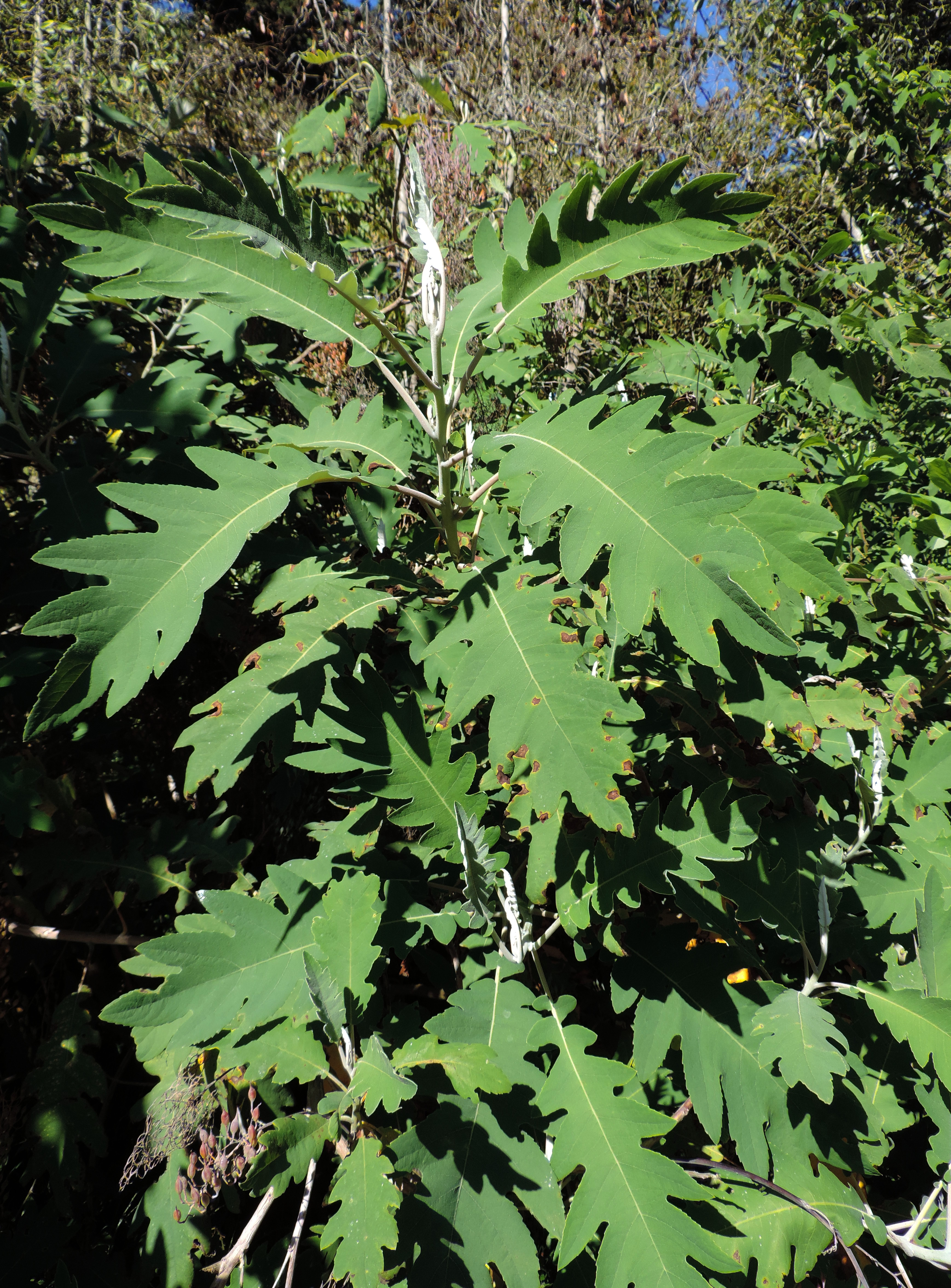 Bocconia arborea in the San Francisco Botanical Garden